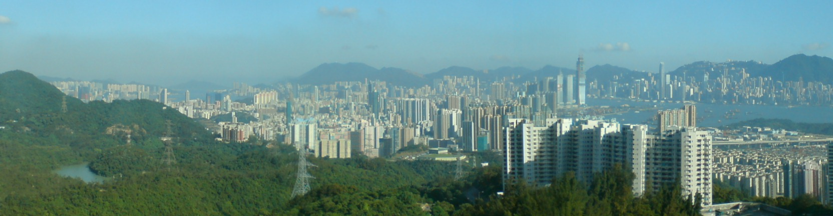 Wonderland Villas Victoria Habour View